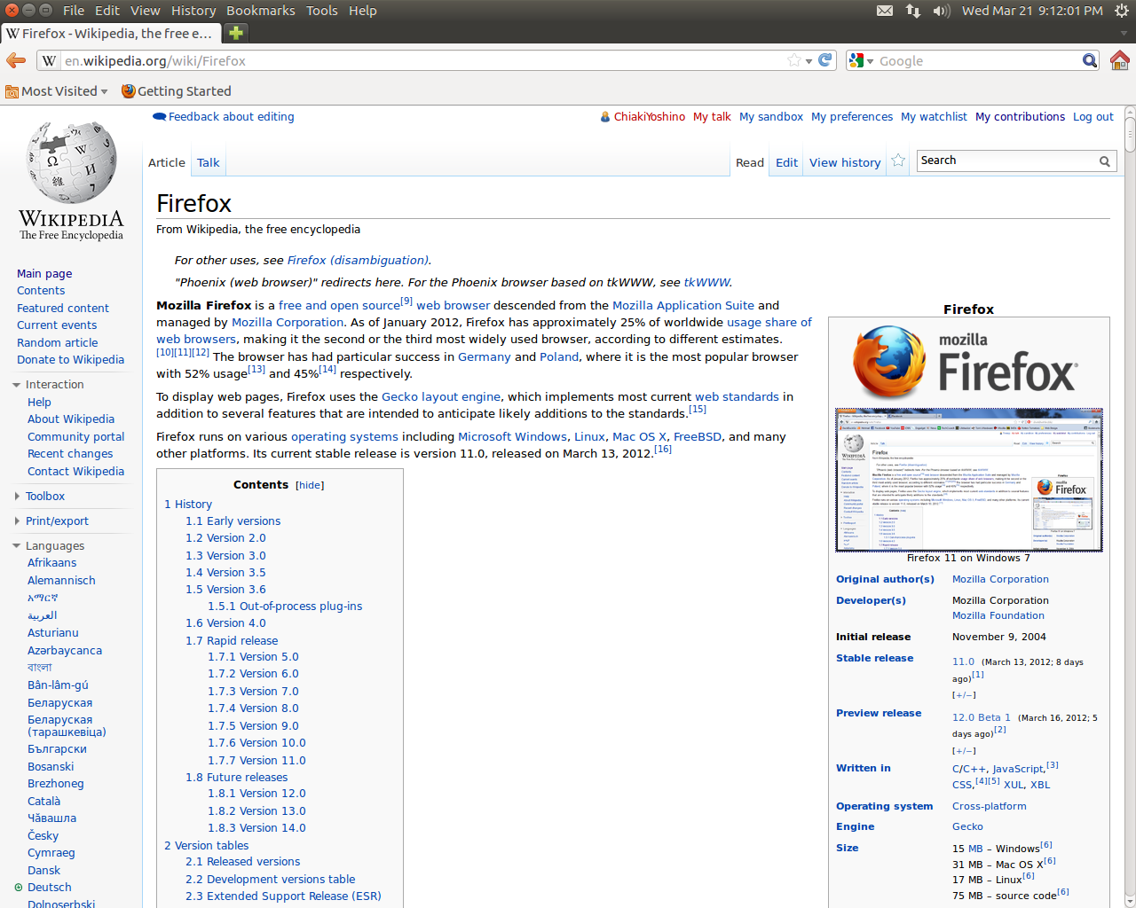 Firefox 11 running on Ubuntu. The menus have been integrated into the Global Menu system in Unity.